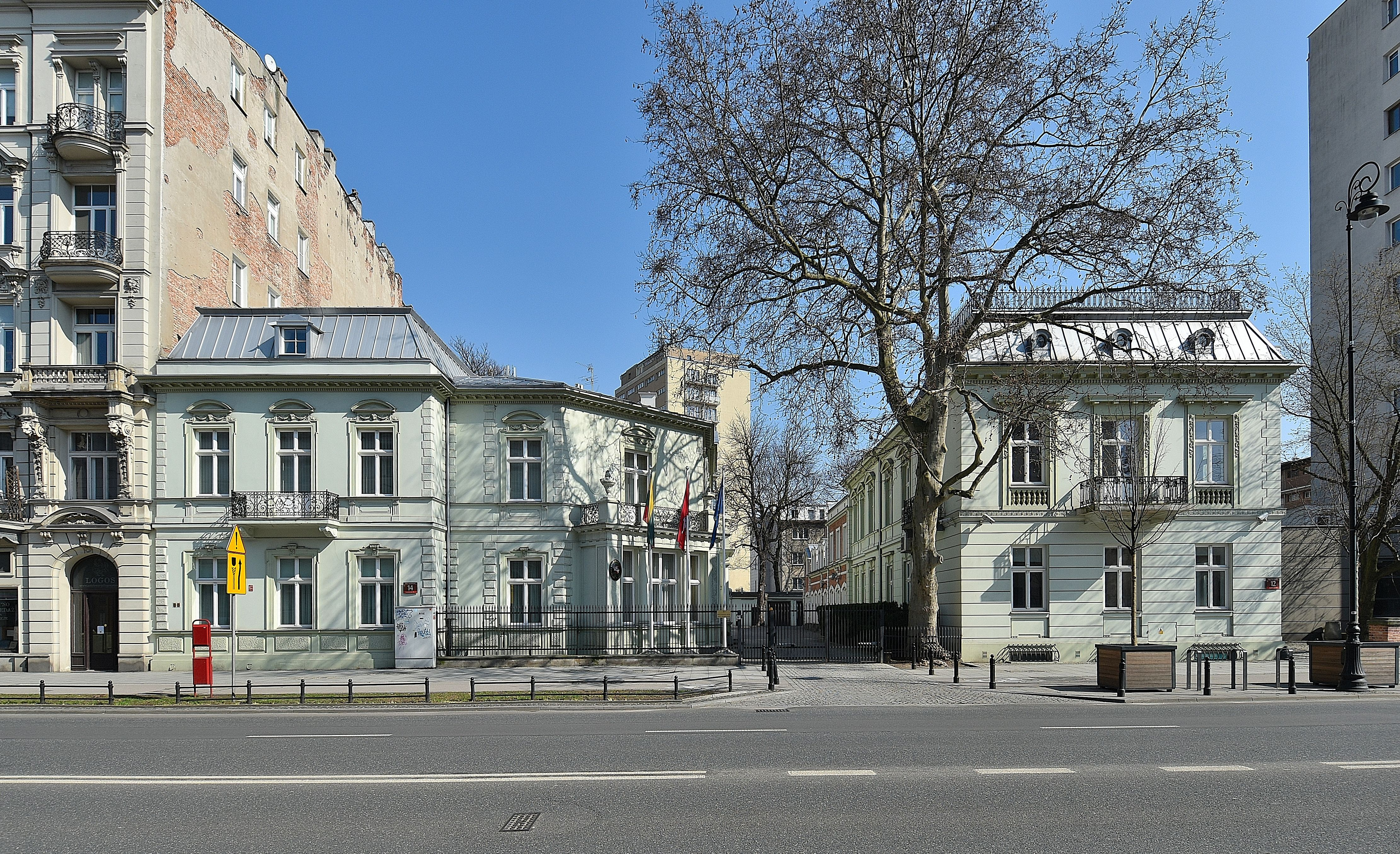 Pod Karczochem Palace in Warsaw